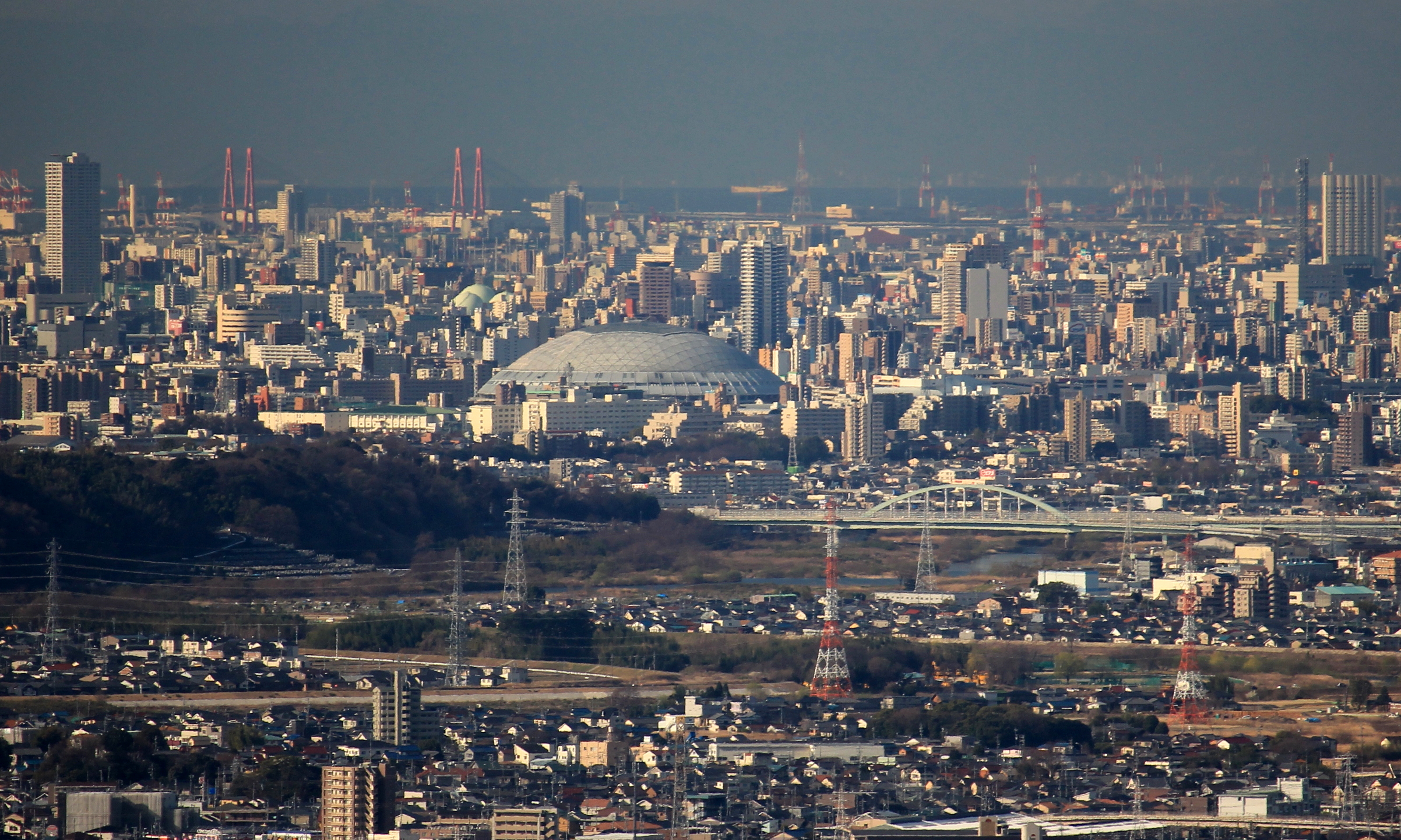 Nagoya Dome and Shonai River seen from Mount Miroku in Aichi prefecture, Japan.